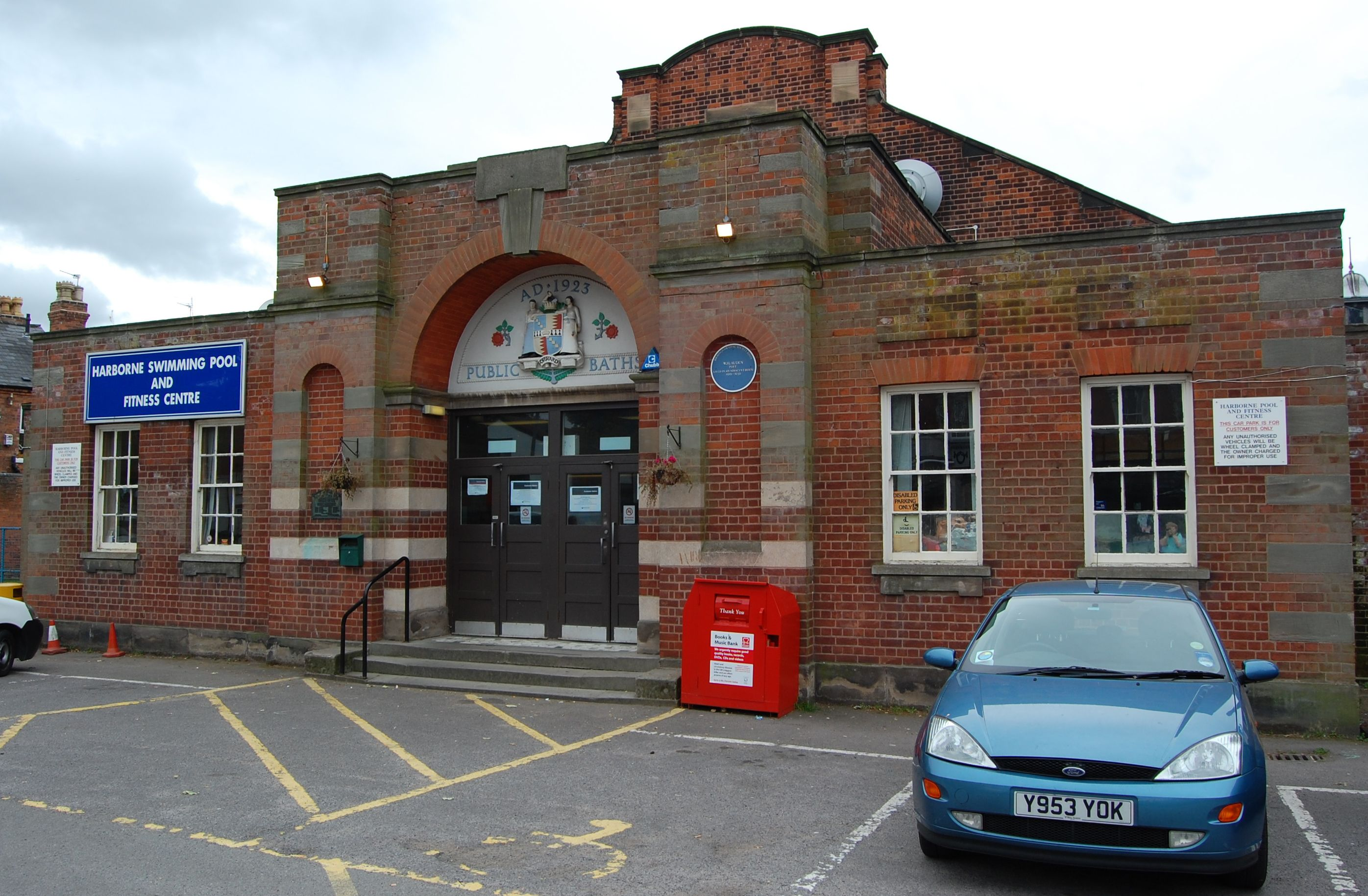 Harborne Baths, Birmingham, England